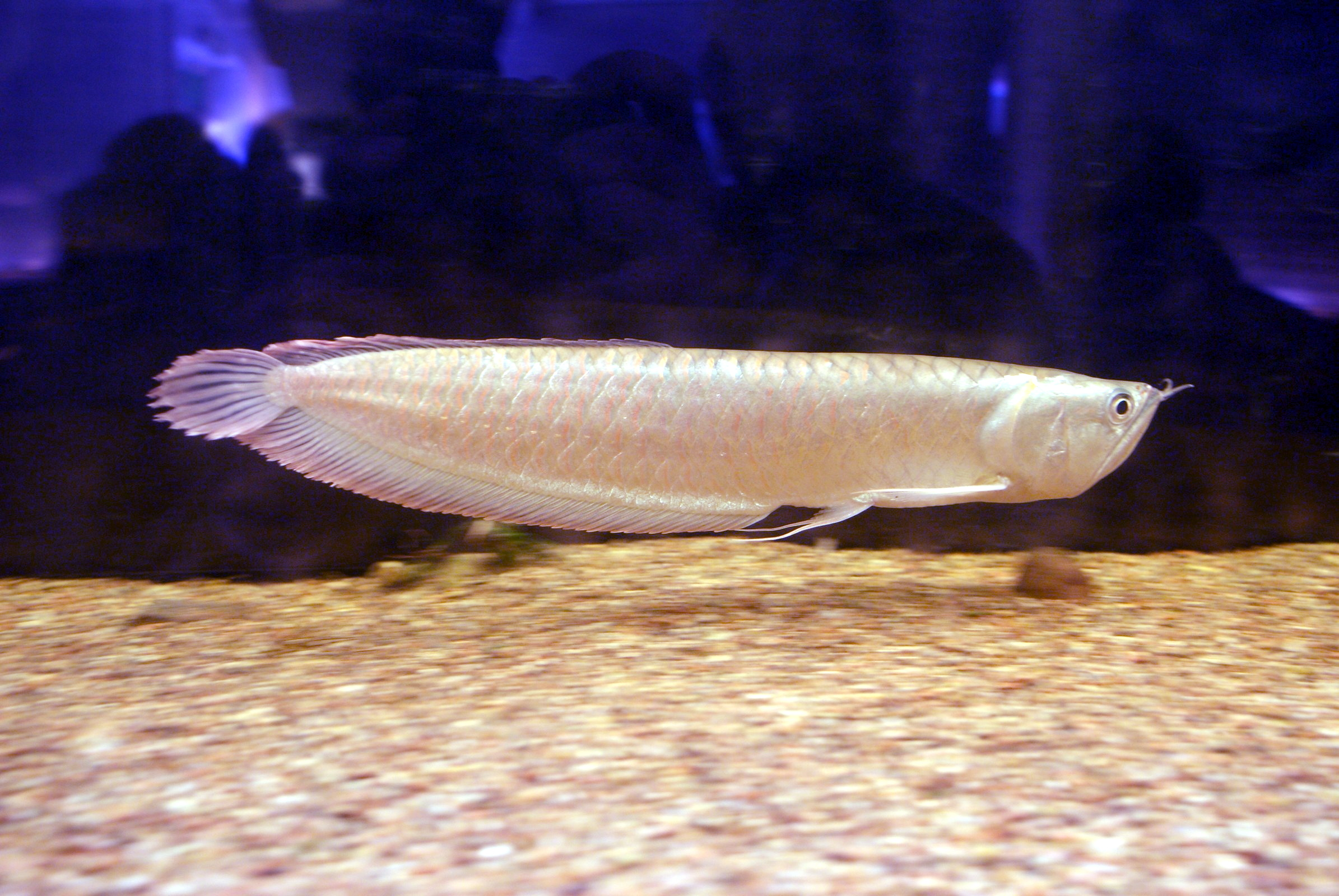 Osteoglossum bicirrhosum in Minsk Zoo